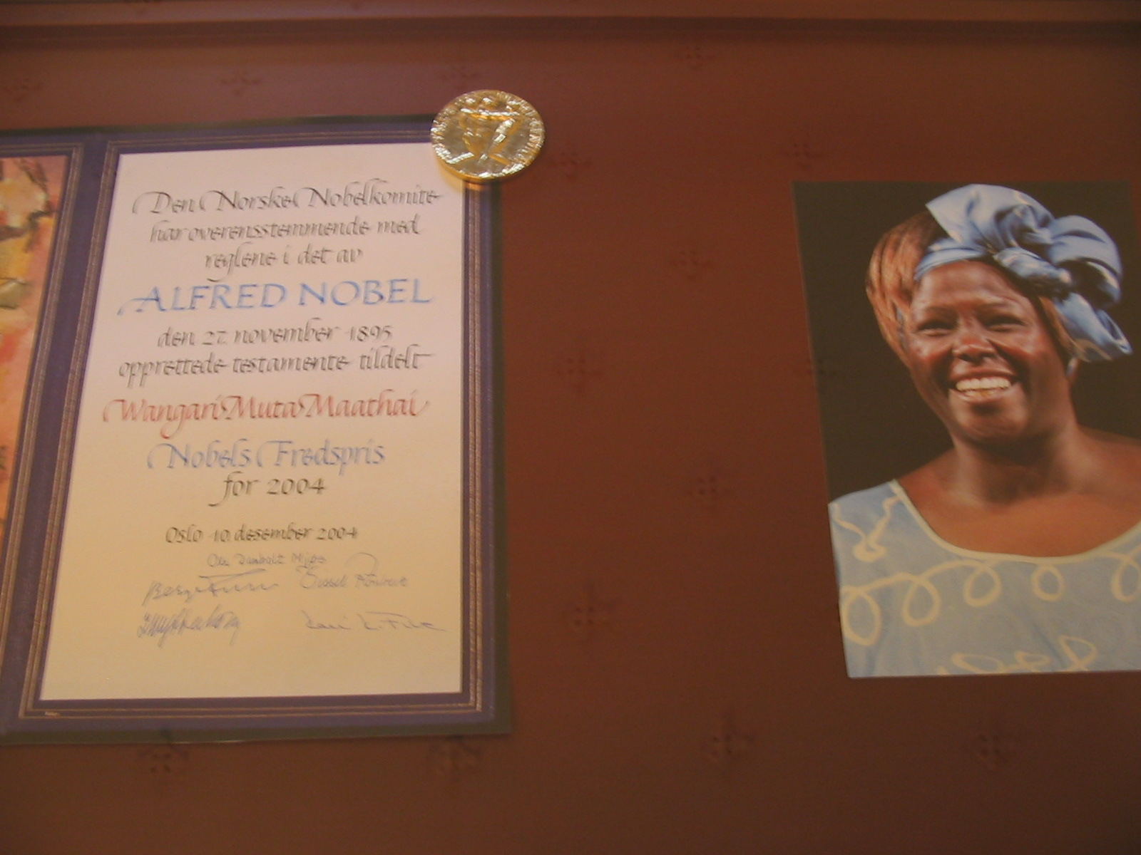 Norway, Oslo, Nobel Institute, Nobel Peace Price 2004 to Wangari Maathai